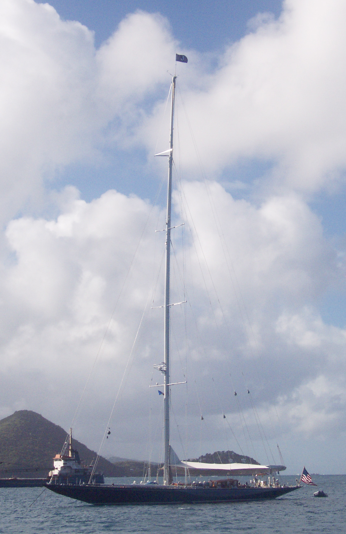 Description = Endeavour aux Grenadines ( Caraibes ) Source =Photo taken by Remi Jouan Date =Décembre 2003 Author =Remi Jouan